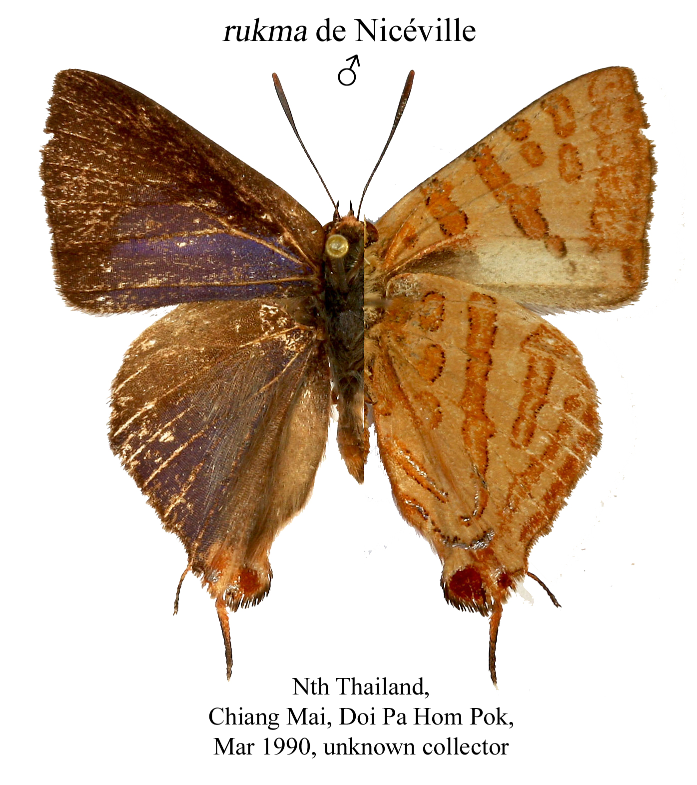 Cigaritis rukma, male, Thailand, R. D. Kennett photo.